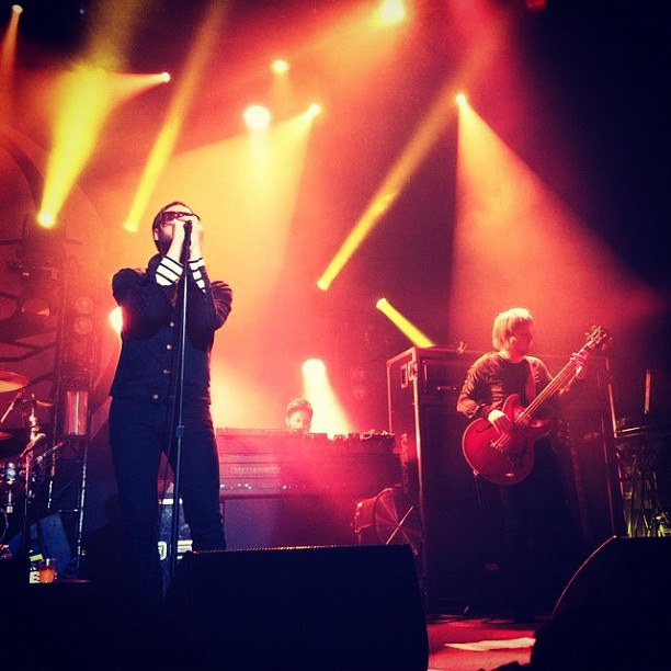 Tom Meighan and Chris Eswards of Kasabian, live in 2012